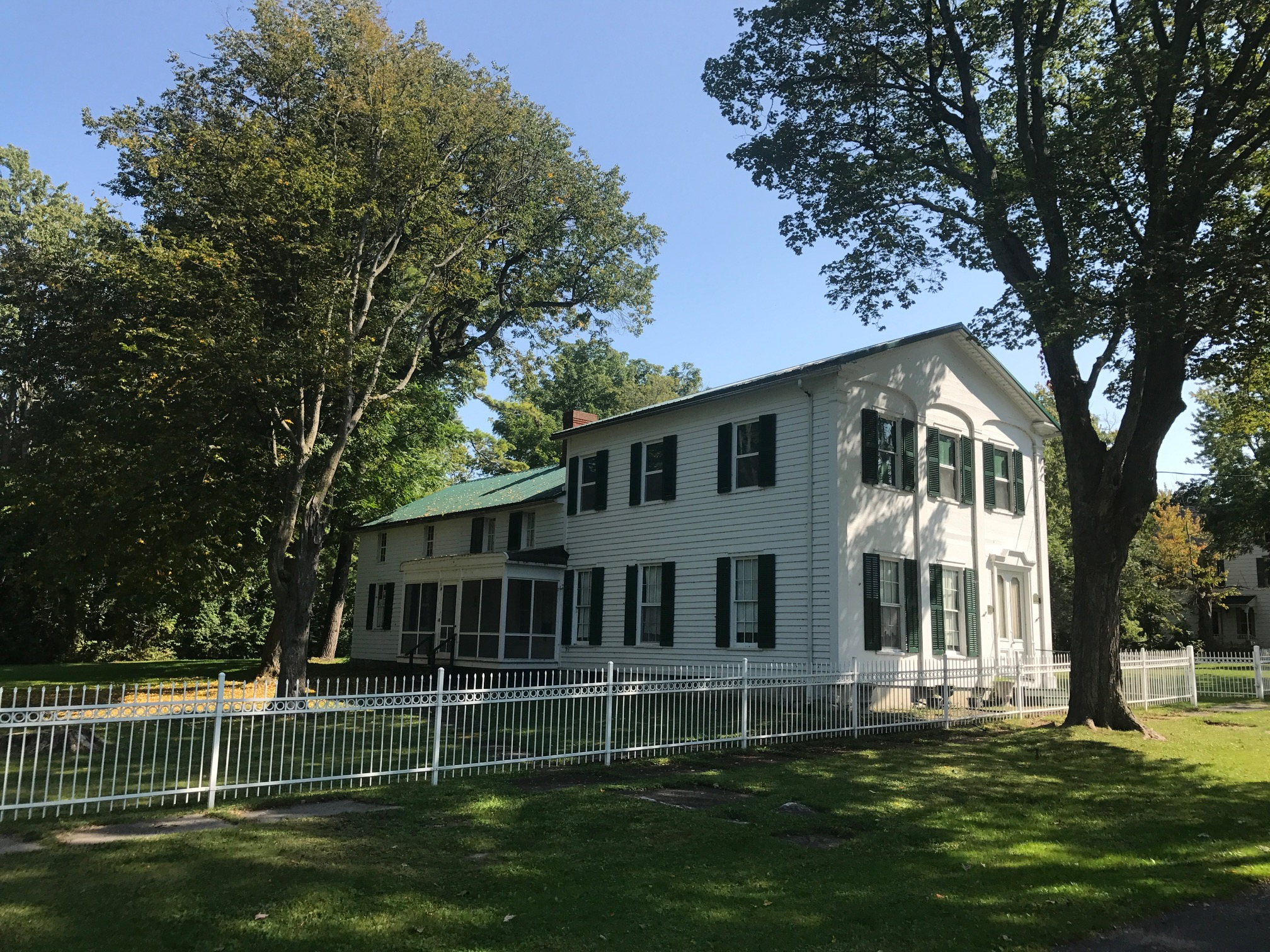 Otis Starkey house in Cape Vincent, New York. North facade.